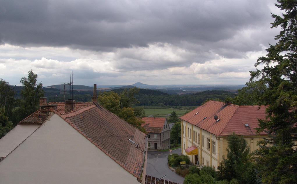 A view from vicinity of St Nicholas church in Třebušín towards SSE. In the foreground village square with Třebušín Chateau in its right (western) side. On the horizon the Říp Mountain, 24 km away. (a 2005 photo)